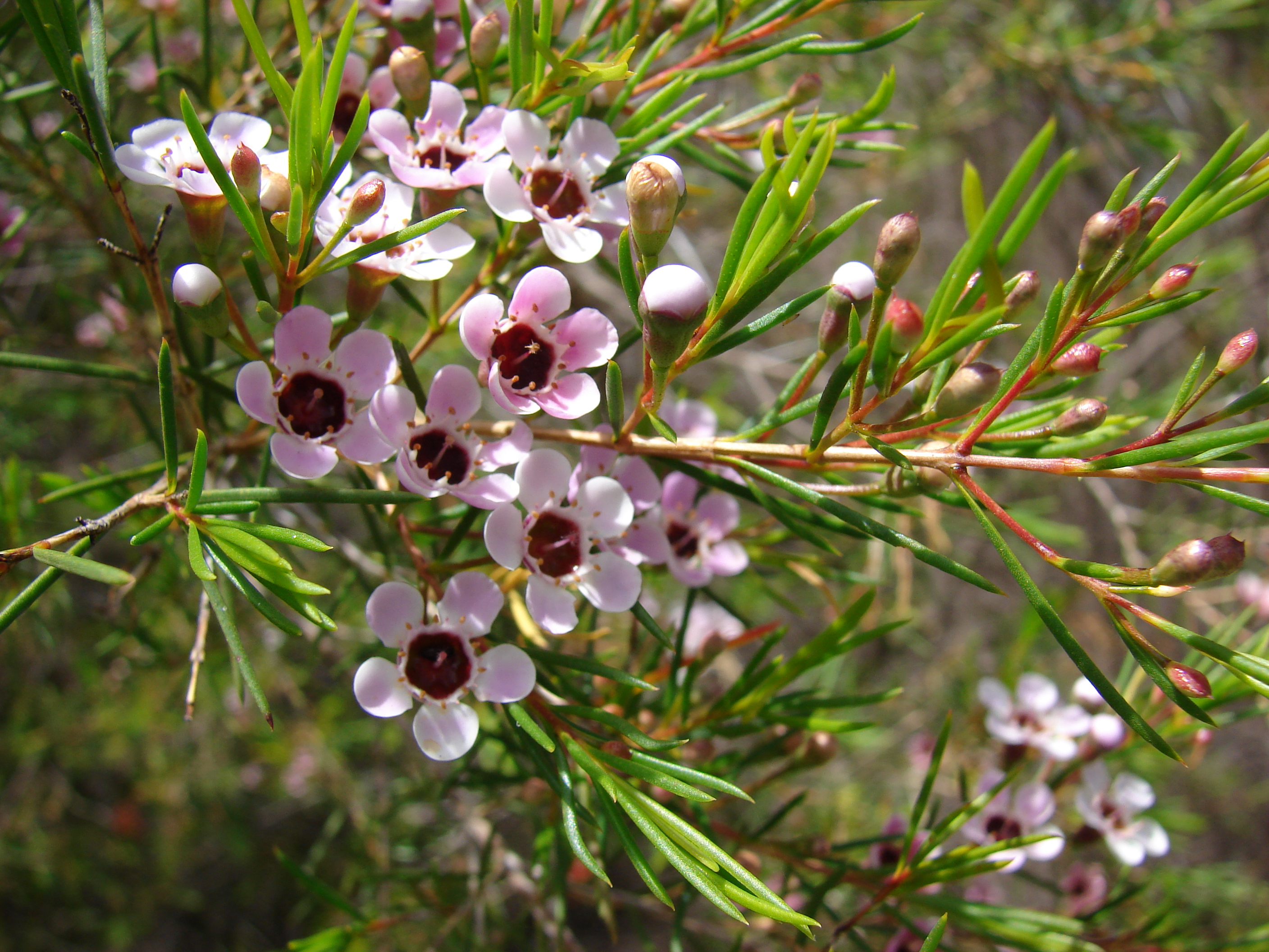 Chamelaucium uncinatum (flowers and leaves). Location: Maui, Kula Experimental Station